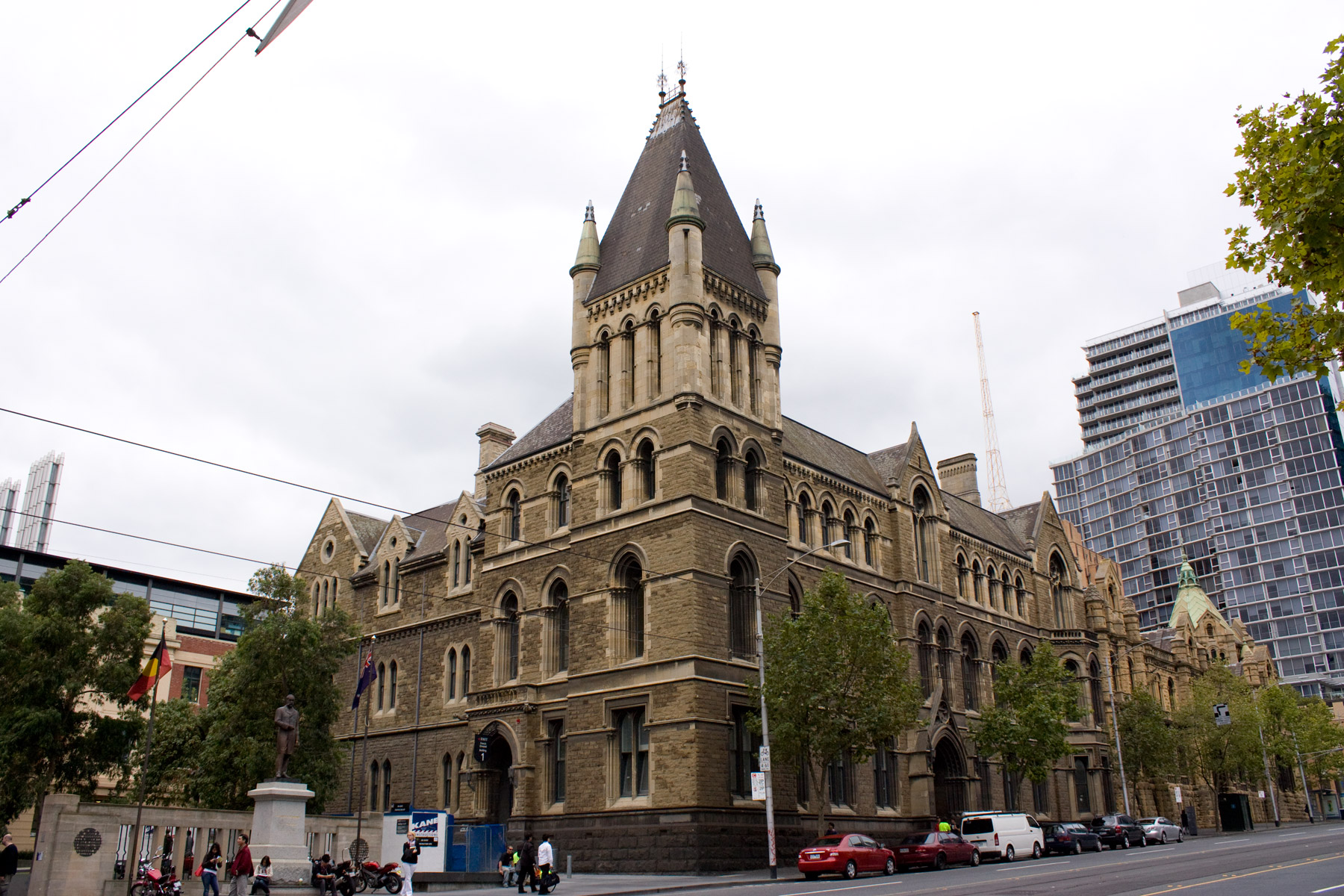 Francis Ormond College